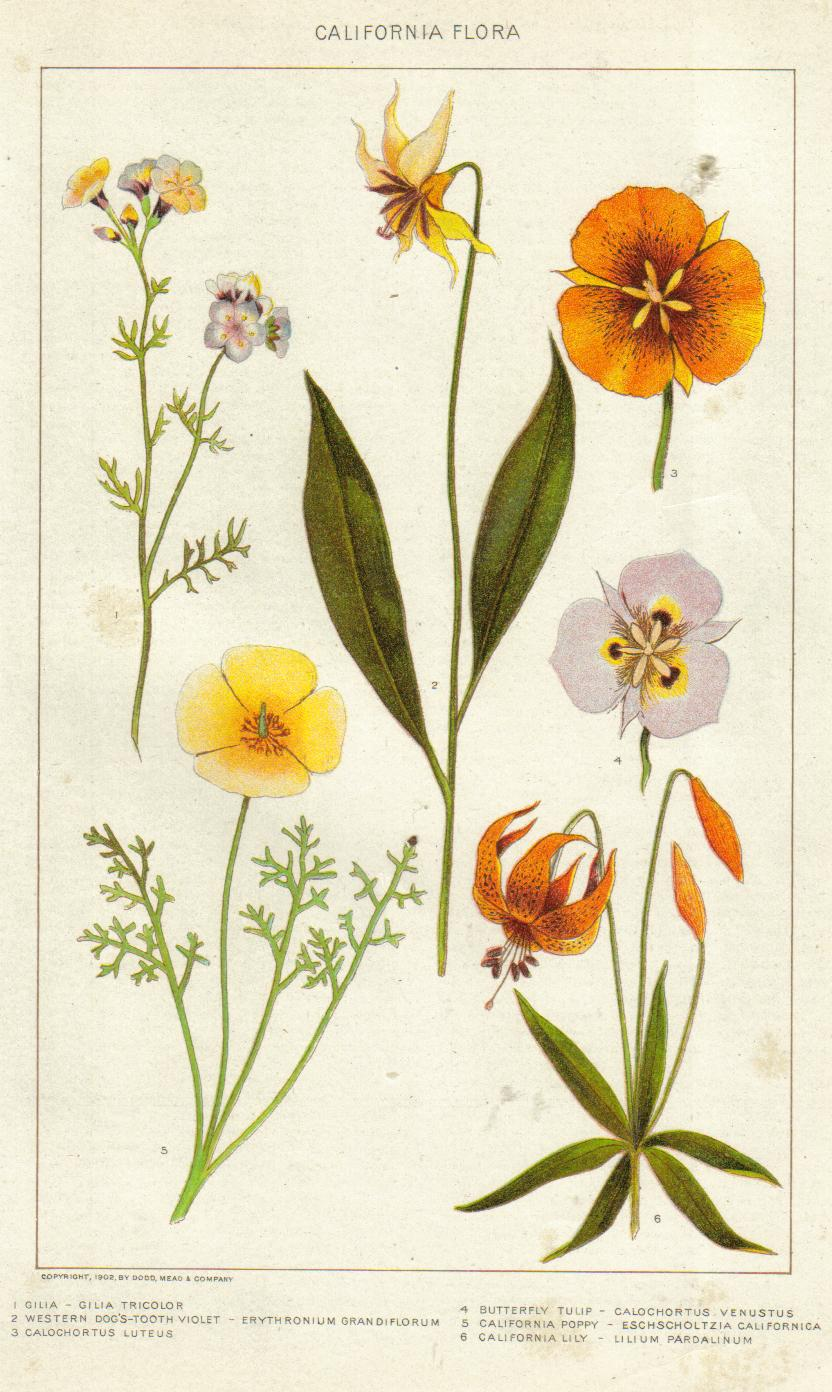 1902 painting of California native plants, gleaned from the New International Encyclopedia